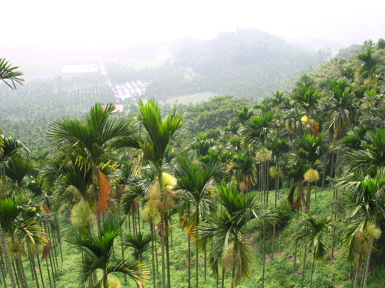 Cultivated Areca nut palm Areca catechu forest, in the hill habitats above agricultural fields, in Taiwan.